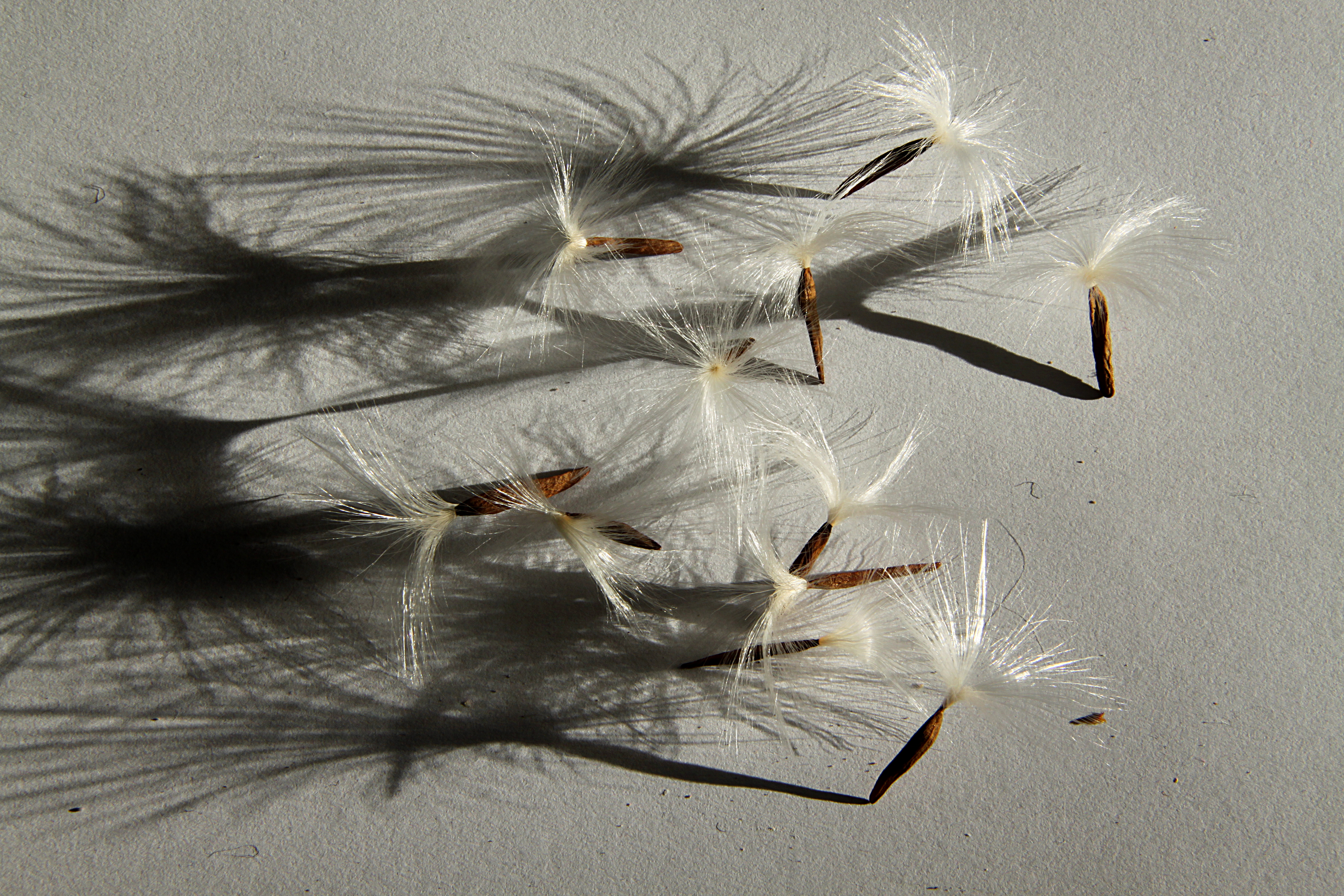 seeds of Tracheospermum jasminoides, 12 mm long disregarding the seed hairs, photographed on 6 december 2014 in Rozenburg, Netherlands